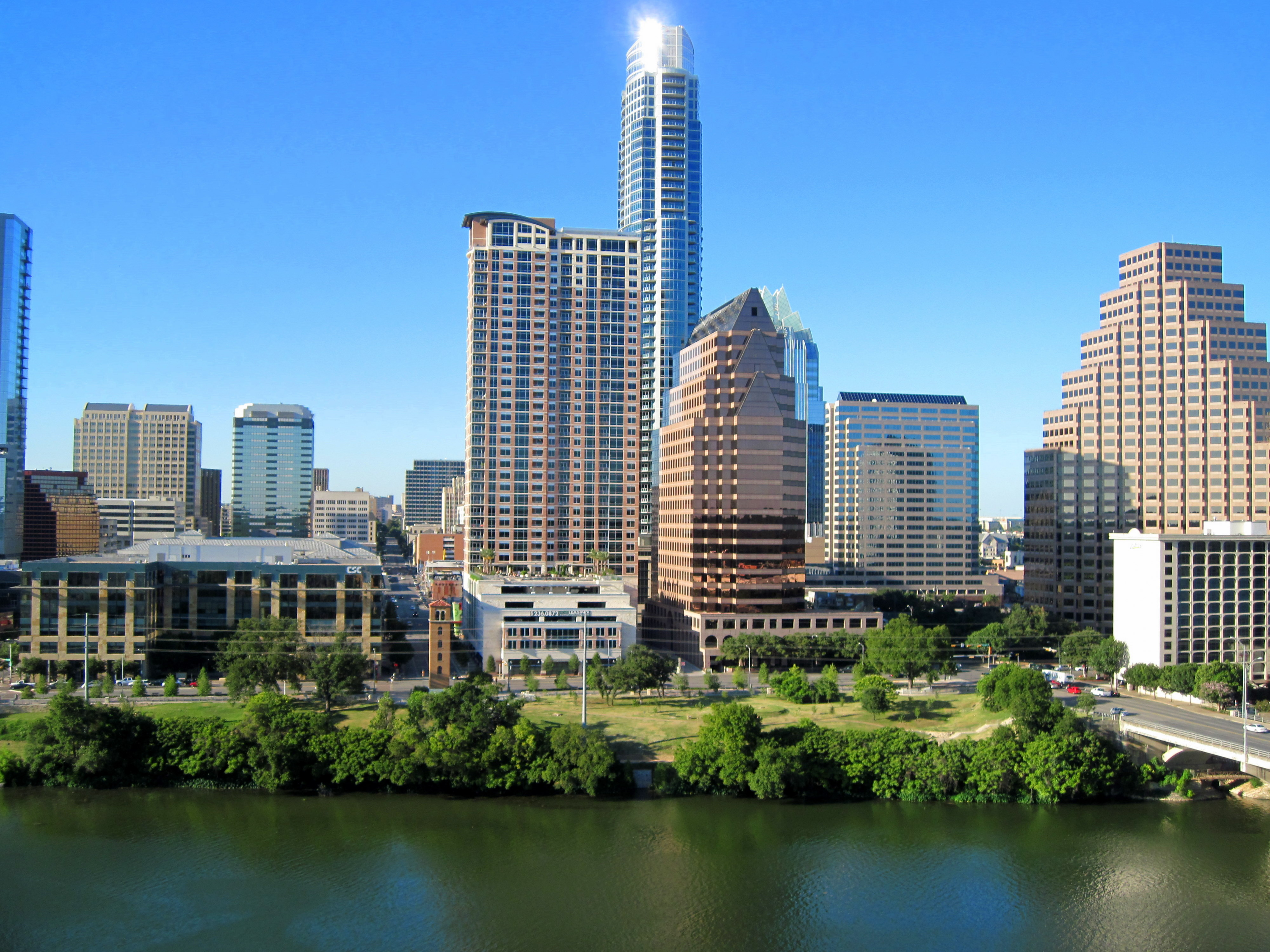 Austin, Texas